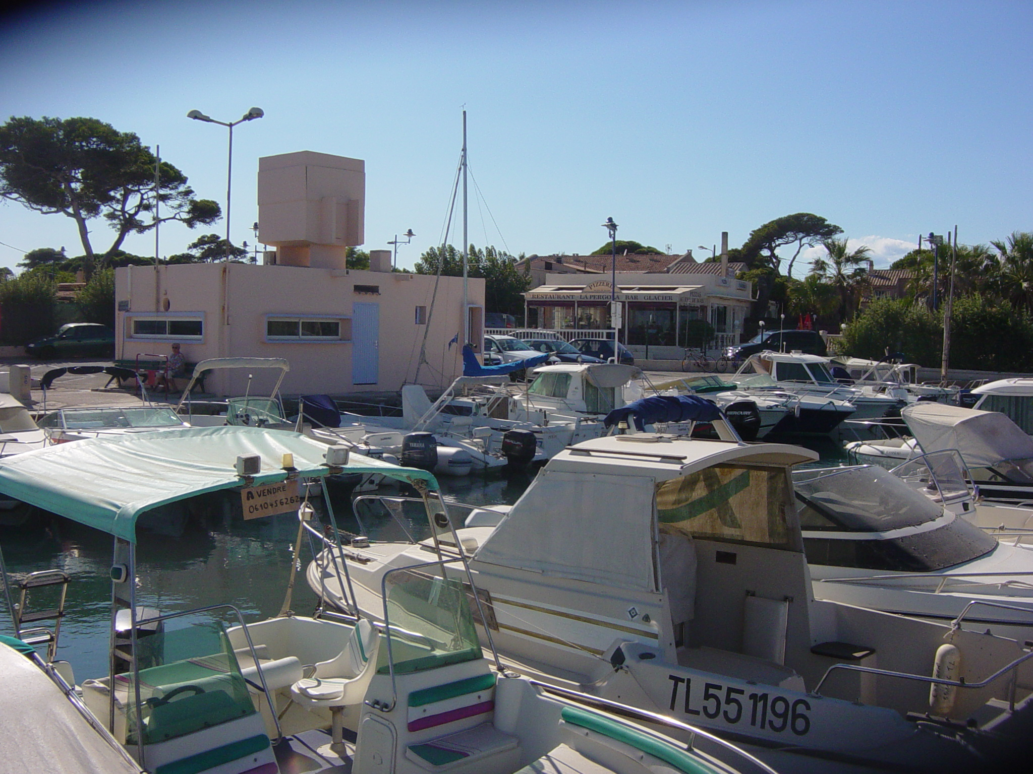 The Harbour of La Capte